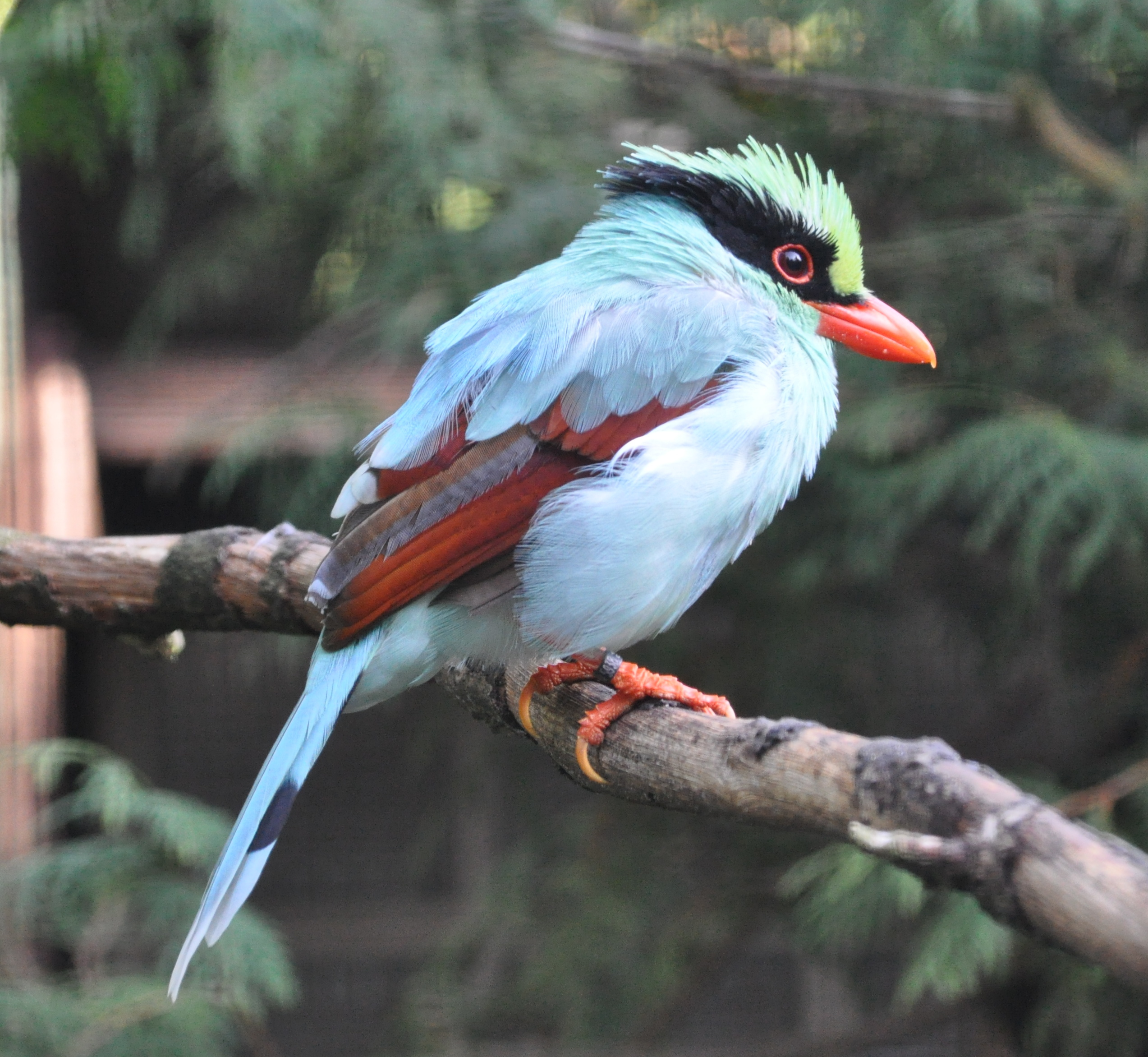 Yellow-breasted Magpie (Cissa hypoleuca concolor) in the Walsrode Bird Park, Germany.